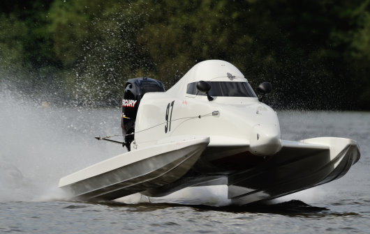 Molgaard F-4s Gen3